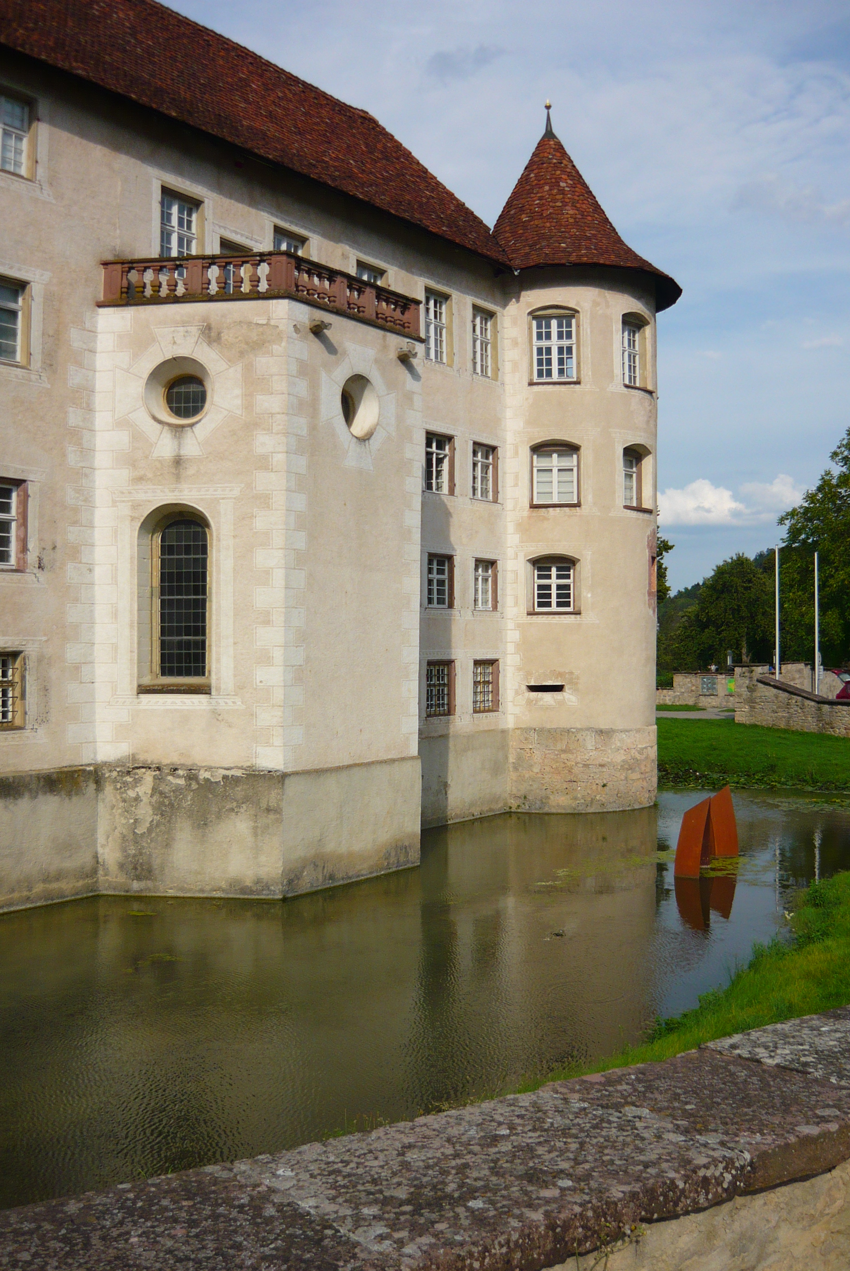 Glatt Castle (a moated castle), with castle chapel